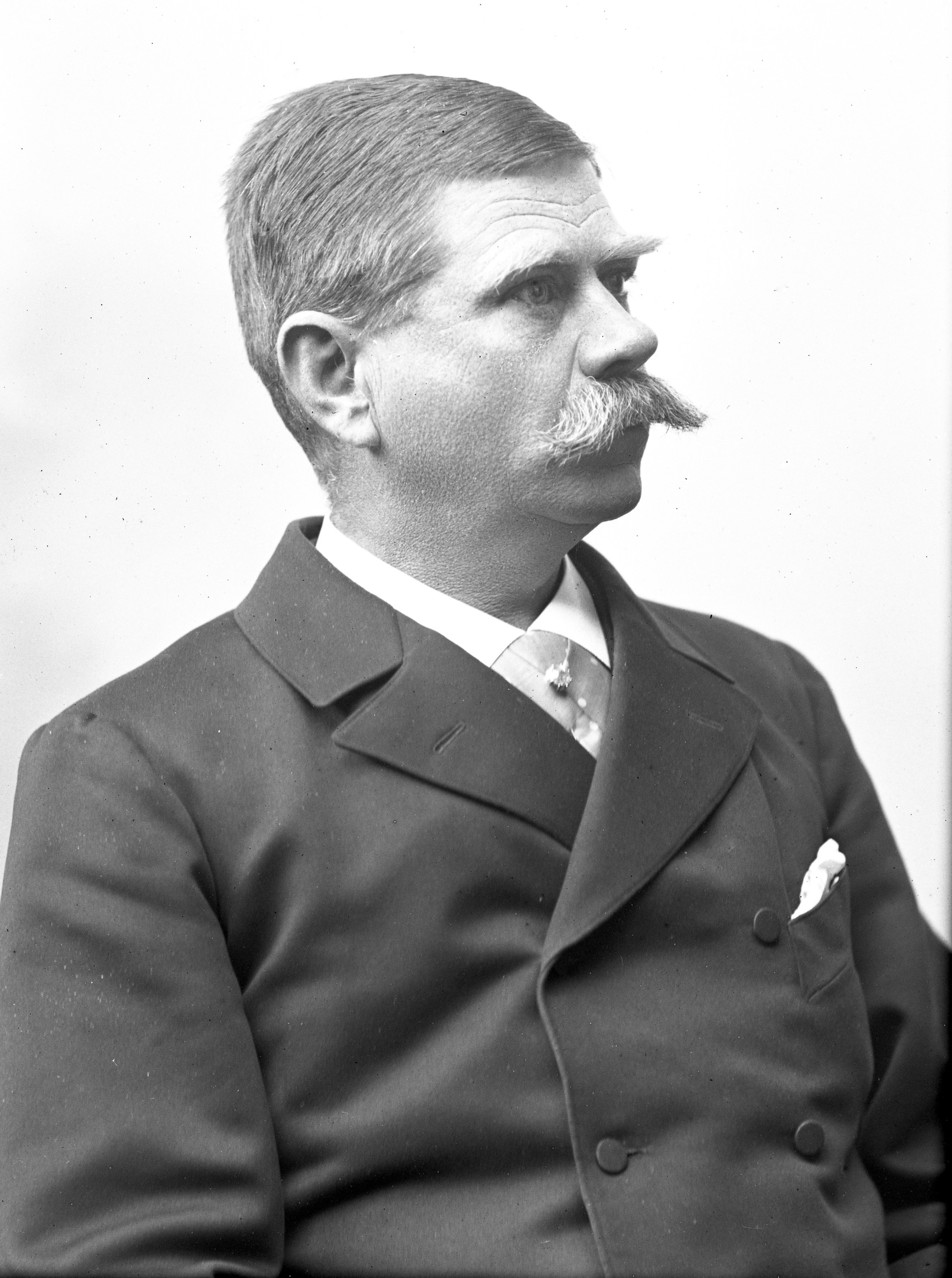 Här visas en bråkdel av alla de porträttbilder ur en samling på ca 30000 glasnegativ som museet innehar efter Anna Ollson 1841-1926, "hela Karlstads fotograf". Anna Ollson drev en ateljé en trappa upp i apotekare Lorentz Kaijsers hus på Kungsgatan 14 i hela 53 år från 1872 till 1925. Samlingen lämnades över som gåva till museet av fotograf Karl Nyström 1928. Apotekare Viktor Undén.